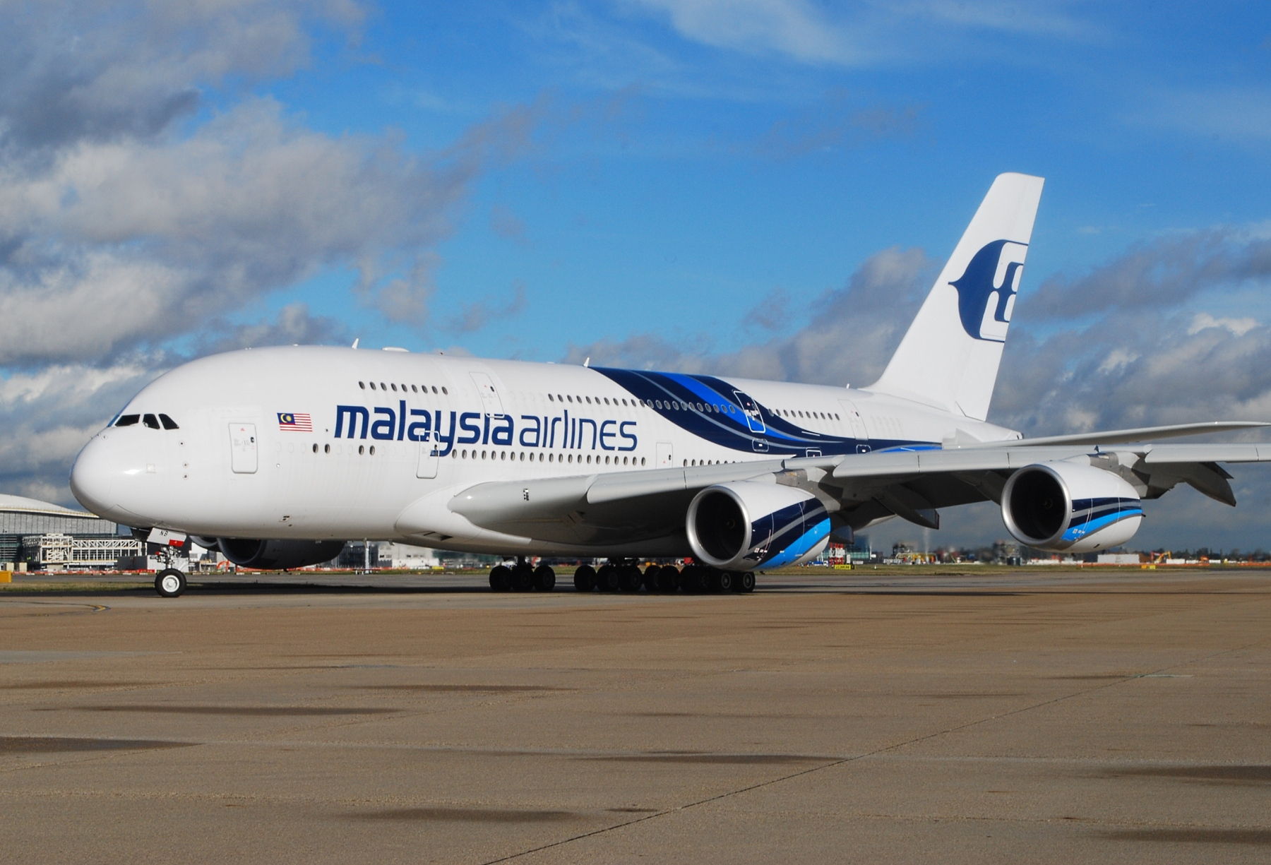 9M-MNB (2) at Heathrow